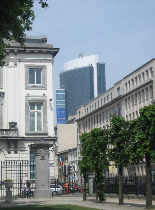 Tour Madou (Brussels), building of the European Commission. Seen from Parc de Bruxelles.